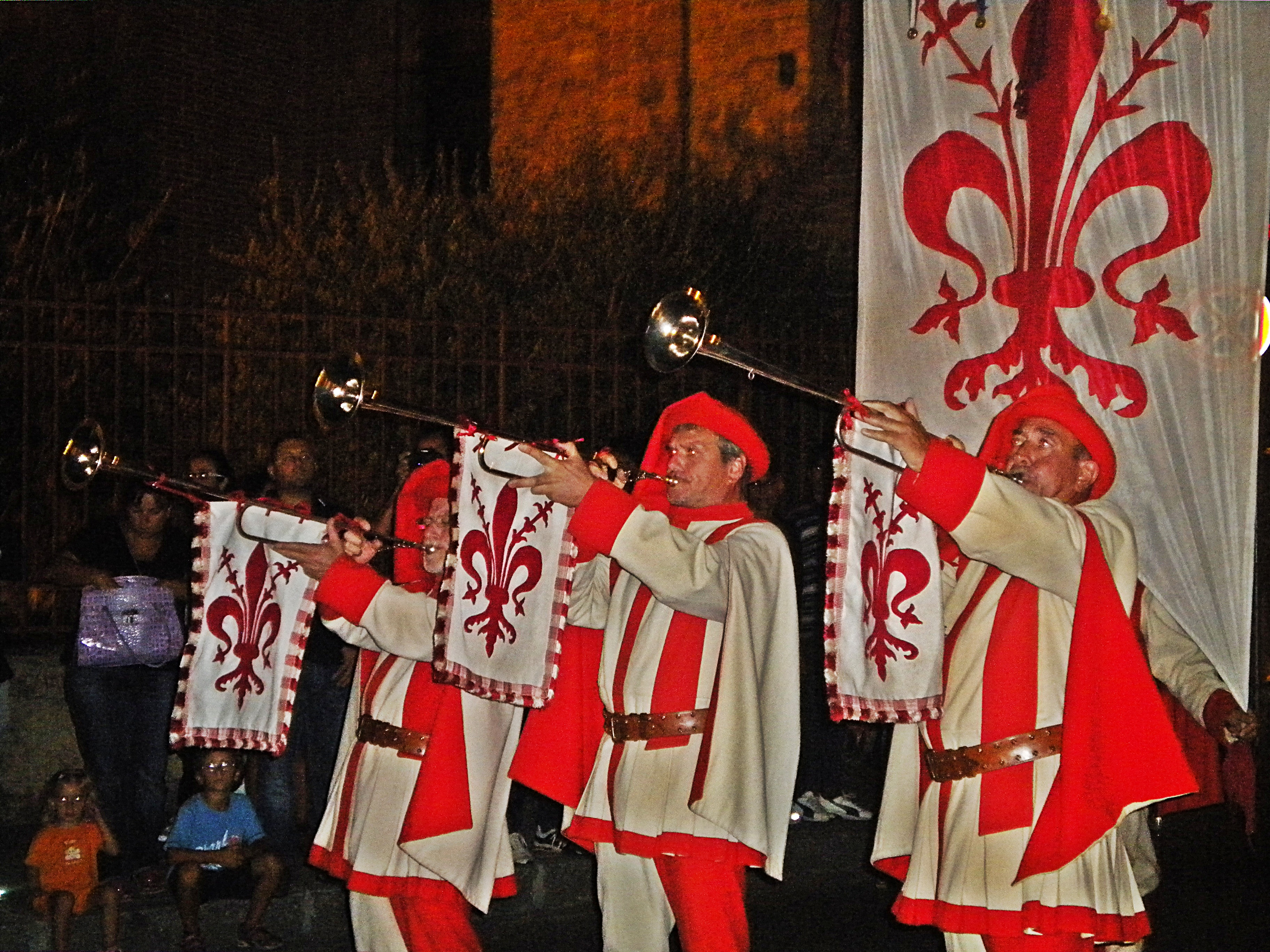 some sets